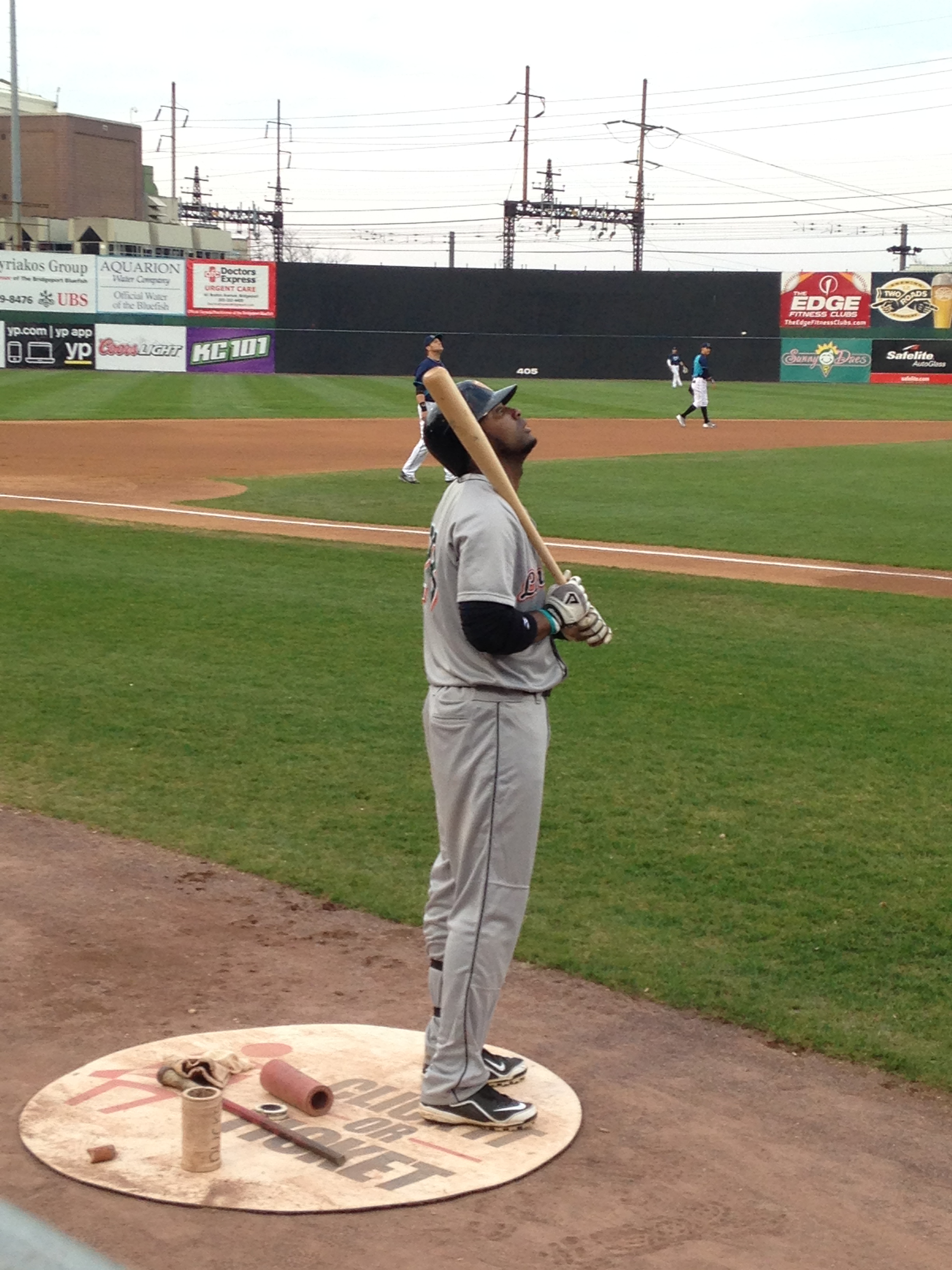 Prentice Redman returns to Bridgeport